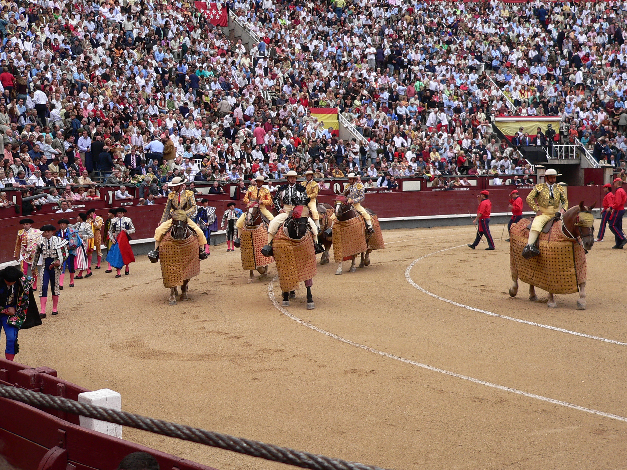 Description: Beginning of a corrida Subject: Toreros, Picadores and banderilleros Place : Plaza de Toros Las Ventas City : Madrid Country : Spain Photographer: © Manuel González Olaechea y Franco Shot date : October, 9th , 2005